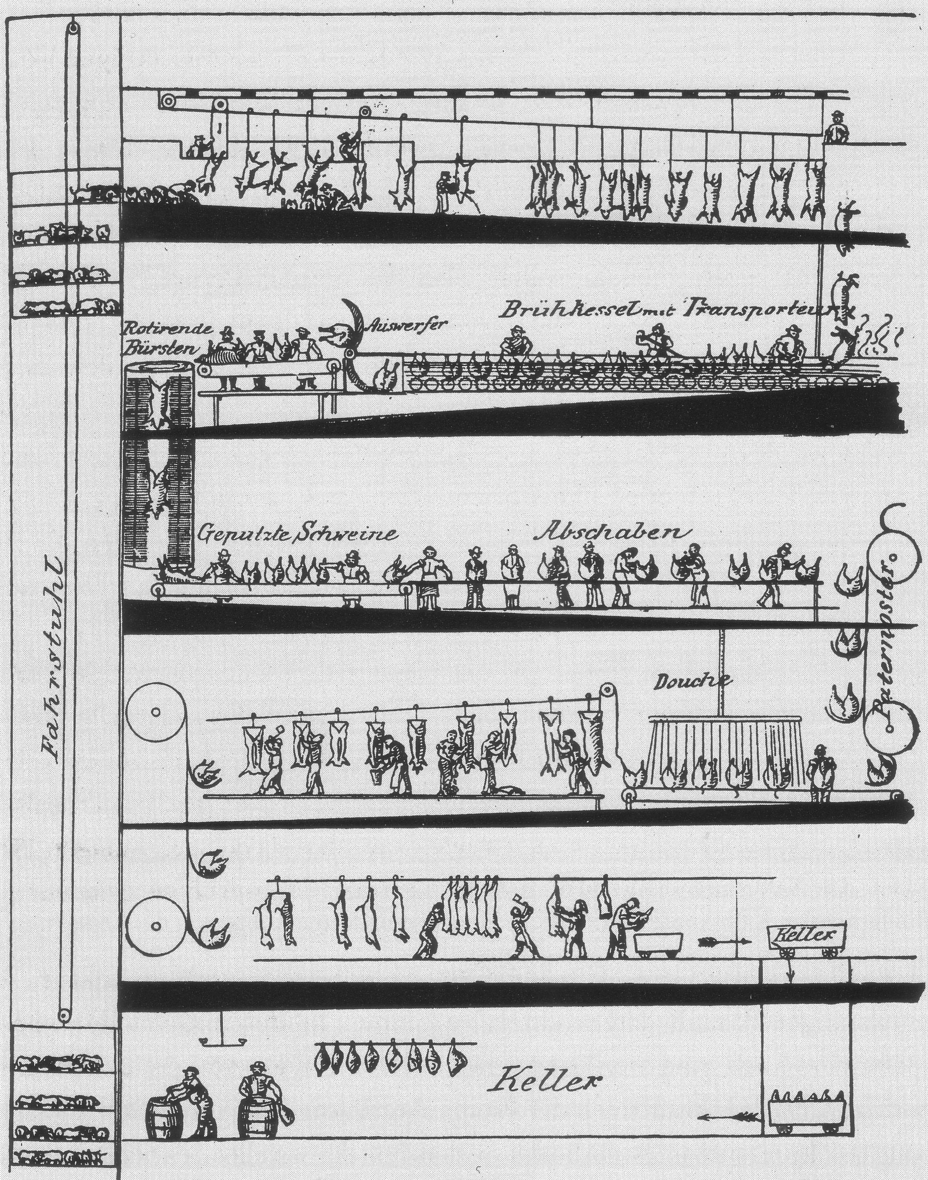 An American major slaughterhouse (a so called packinghouse), around 1903